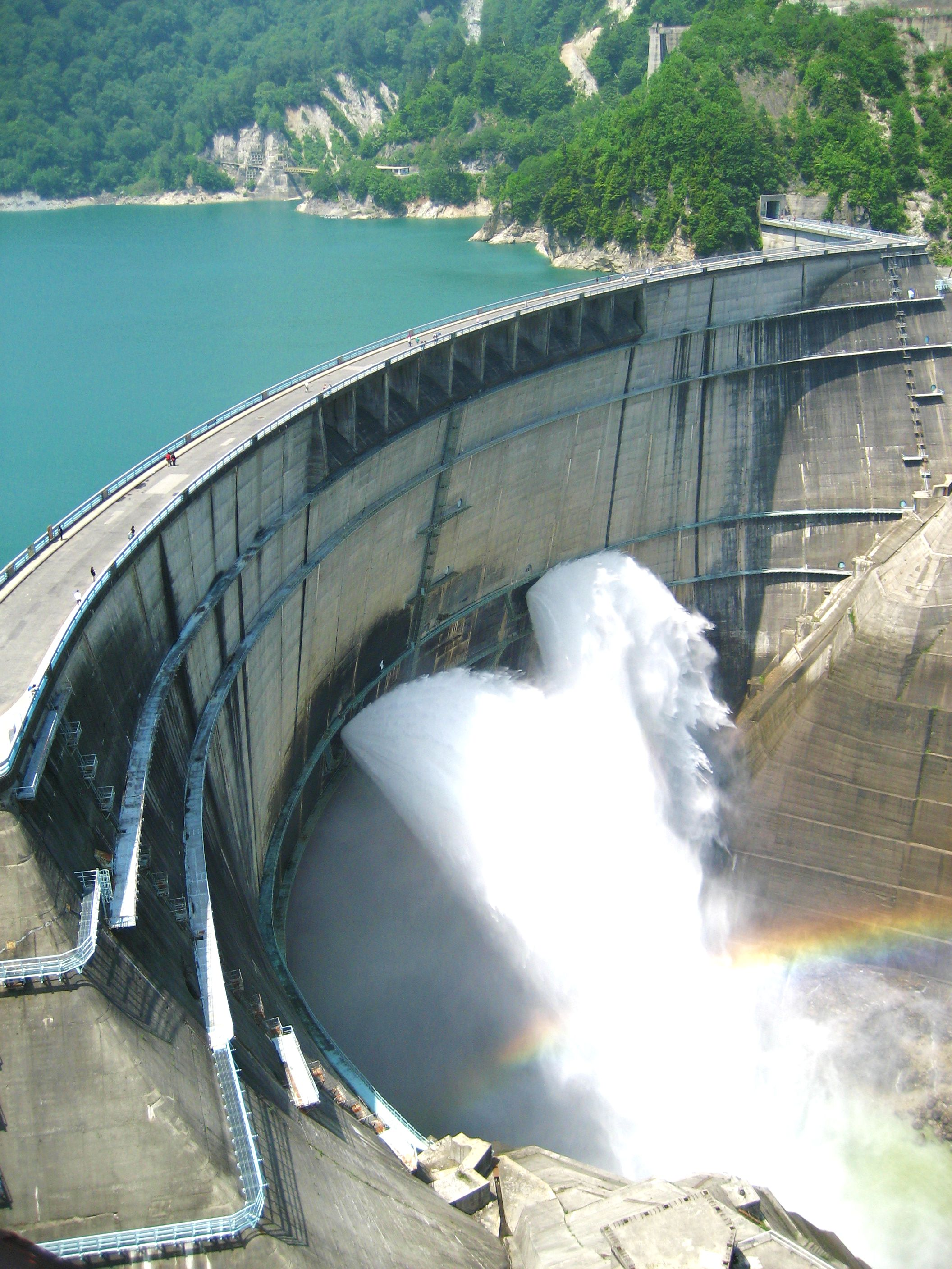 Kurobe Dam.